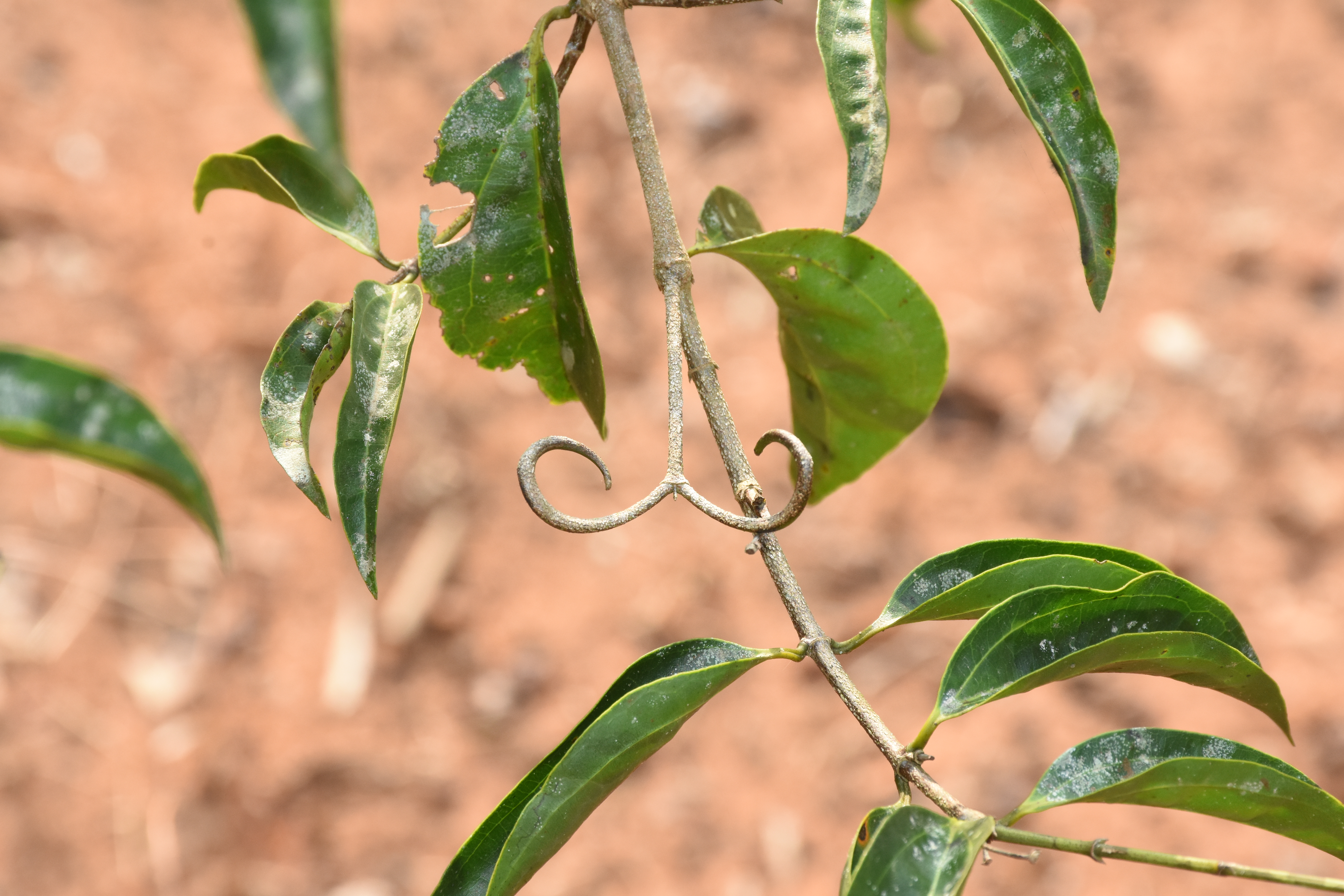 At Neeliyarkottam